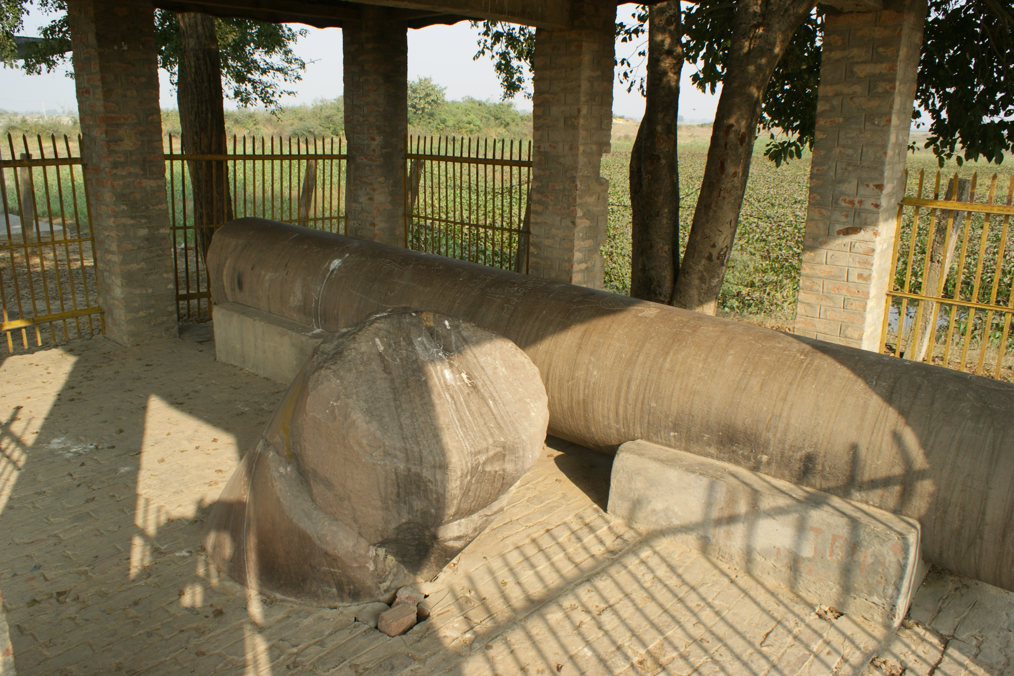 Nigali Sagar pillar full view